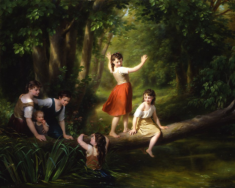 work: Innocence